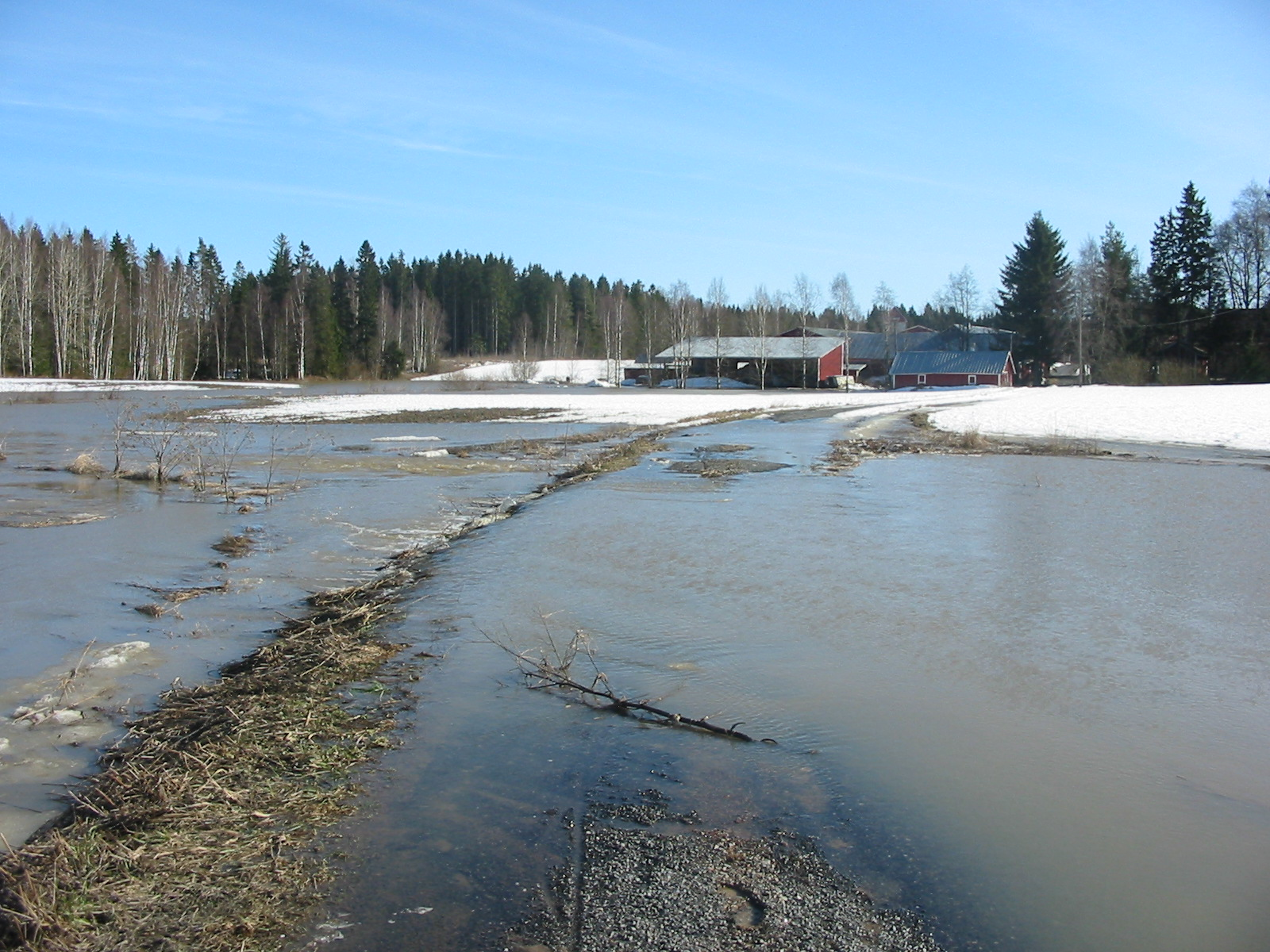 In northern areas like Finland the melting of the snow after the winter regulary causes floods for a short period, typically one day.